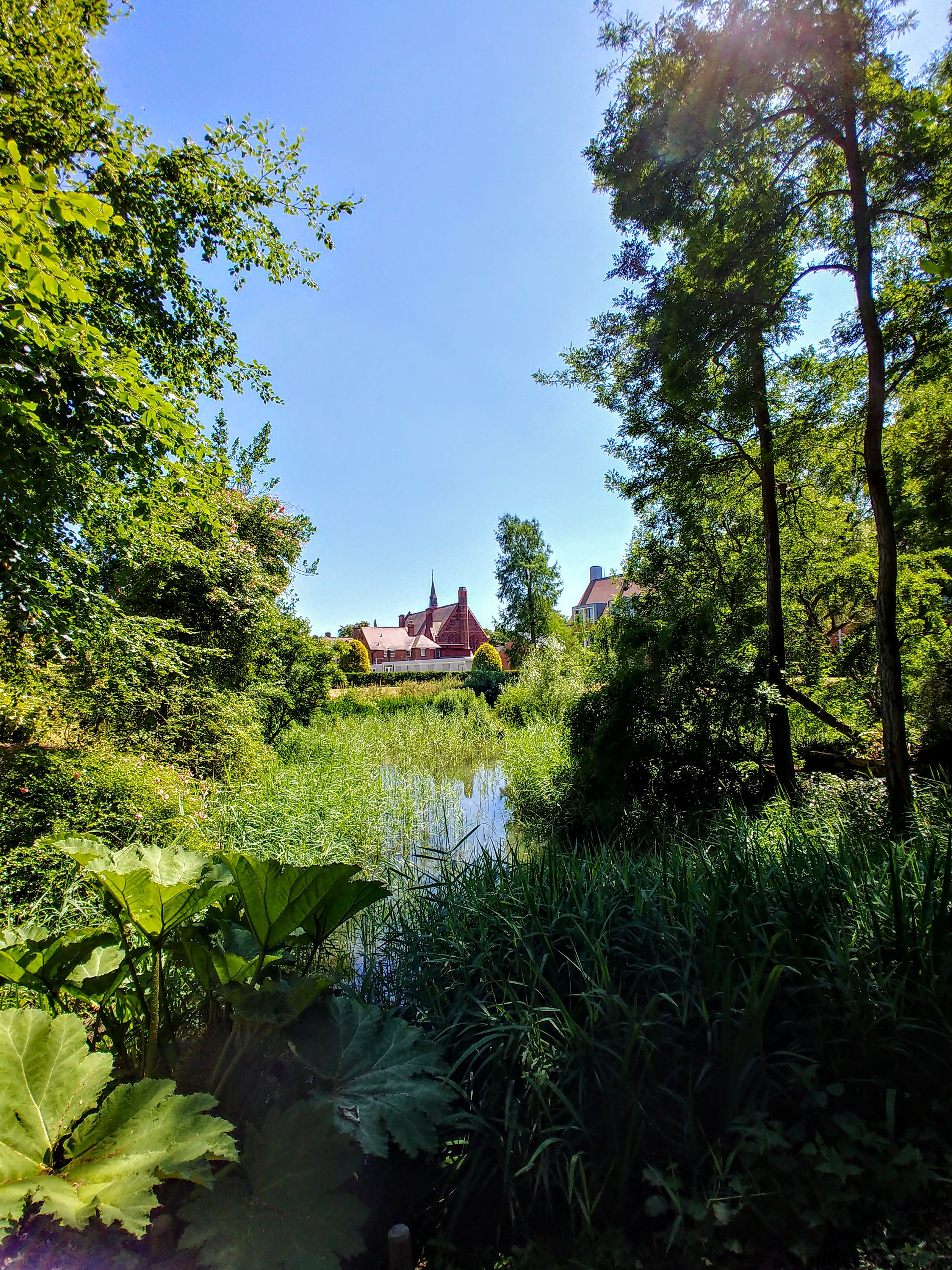 Girton College duck pont